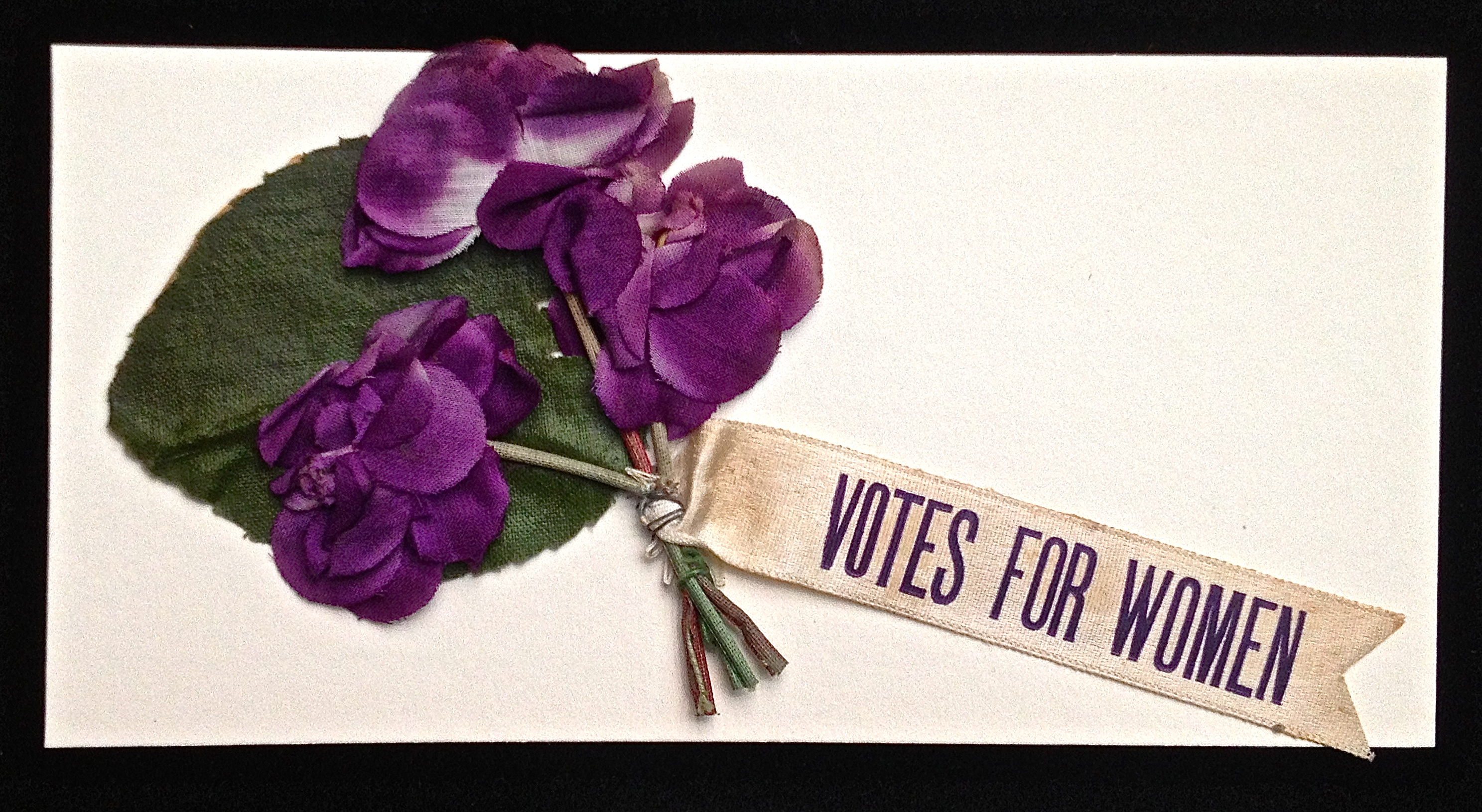 Votes for Women. Purple fabric flowers from the Woman Suffrage Parade, March 3, 1913 in Washington, DC. Emma Louise Lyons memorabilia, photographed at the Washington, DC History Editathon at the Historical Society of Washington, D.C..